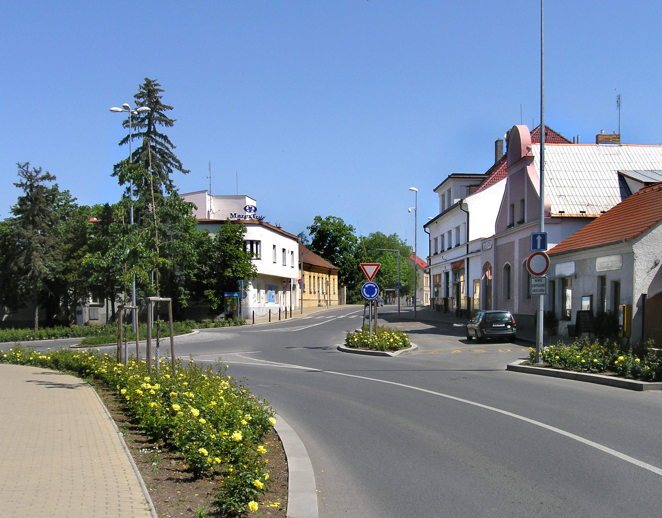 Praha 4-Kunratice, náměstí Prezidenta Masaryka.